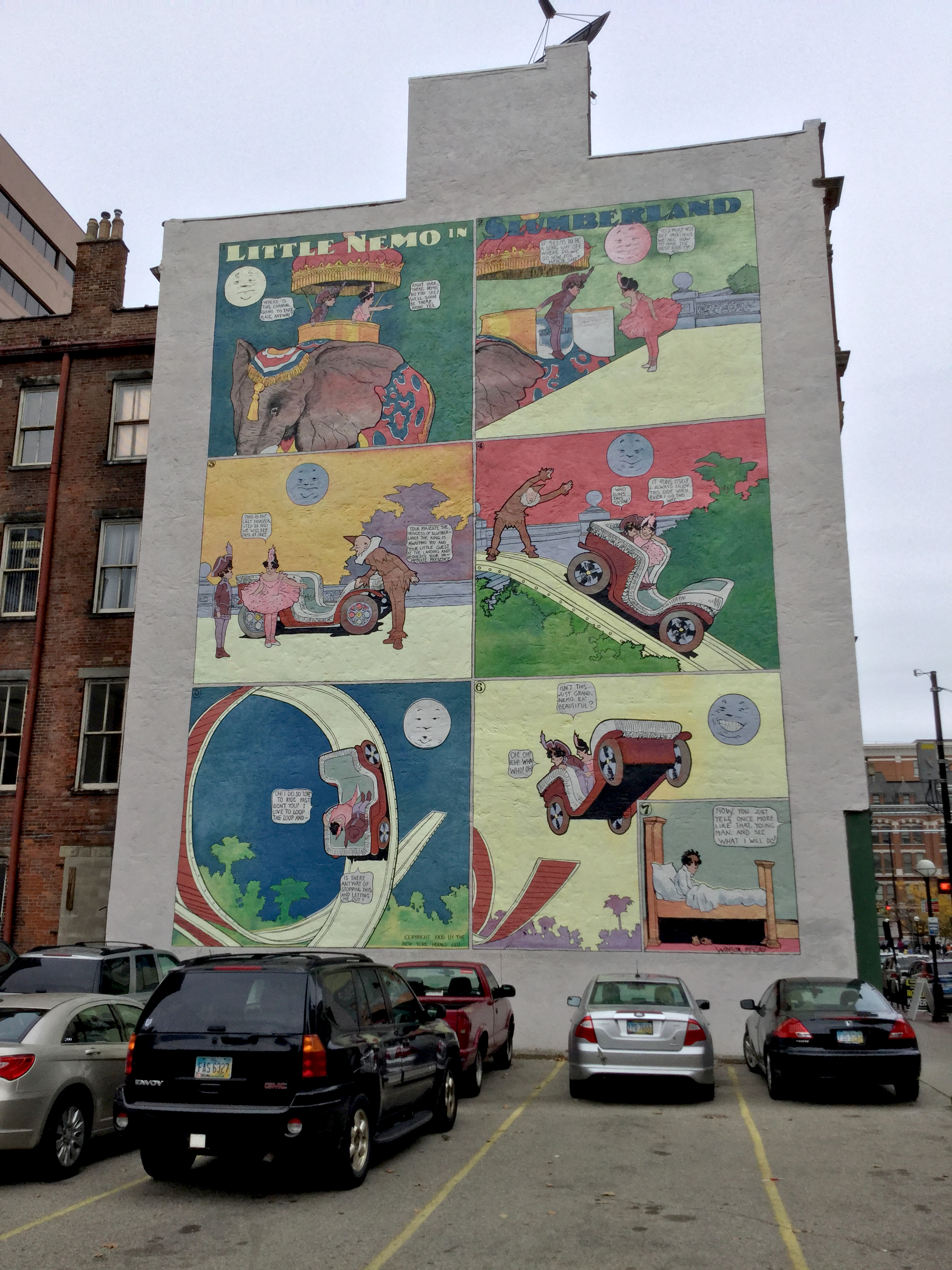 Mural of a "Little Nemo in Slumberland" comic created by Winsor McCay over a century ago, located at 917 Main Street in downtown Cincinnati, Ohio. The mural was dedicated on October 14, 2016.